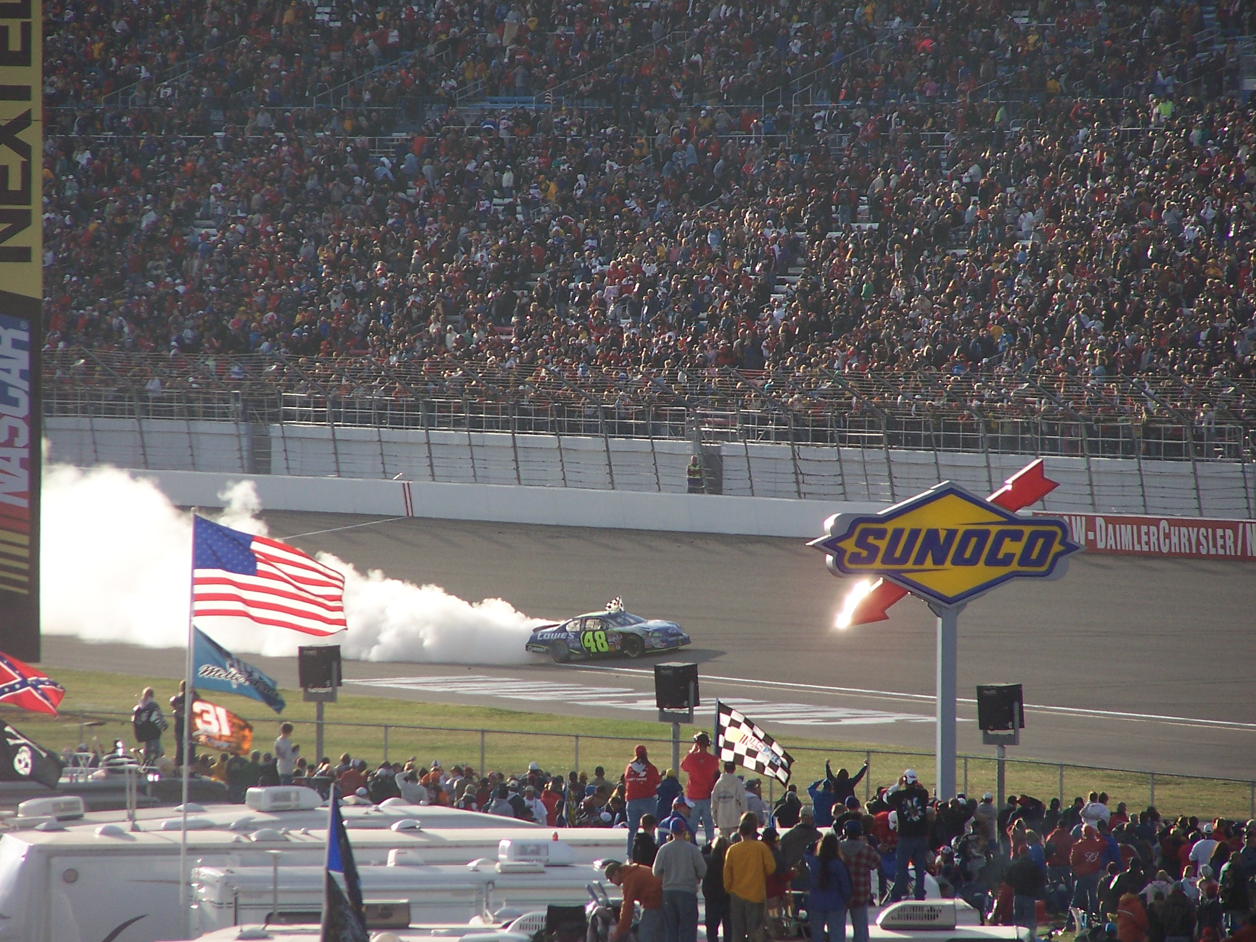 Jimmie Johnson performs a burnout after winning the UAW-Daimler Chrysler 400 at Las Vegas Motor Speedway in 2006.